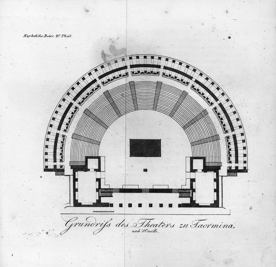 August Wilhelm Kephalides, Plan of the Ancient Greek theatre at Taormina. Taken from his: Reise durch Italien und Sicilien, 1822.